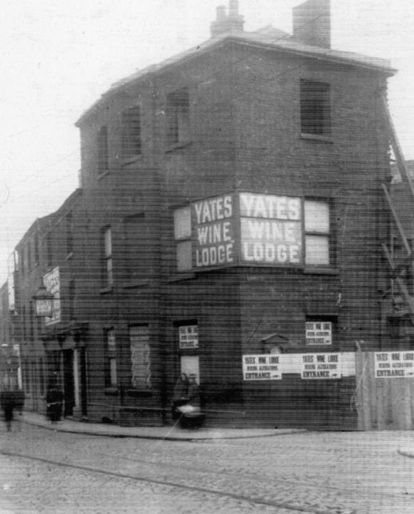 THE Original.... Yates Wine Lodge, High Street, in Oldham where Yates originated. Circa 1927